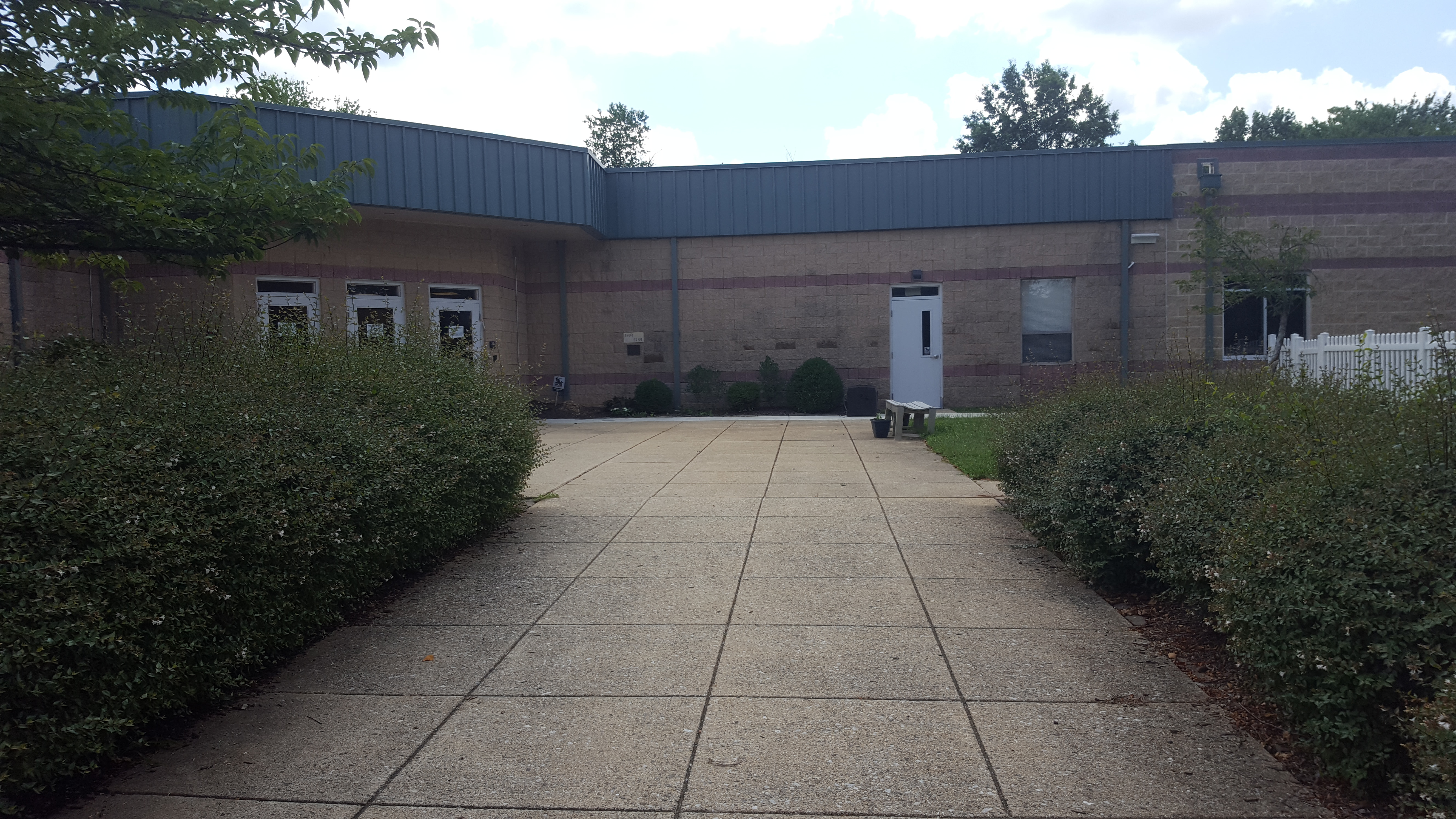 Front of the Beth Shalom Congregation building